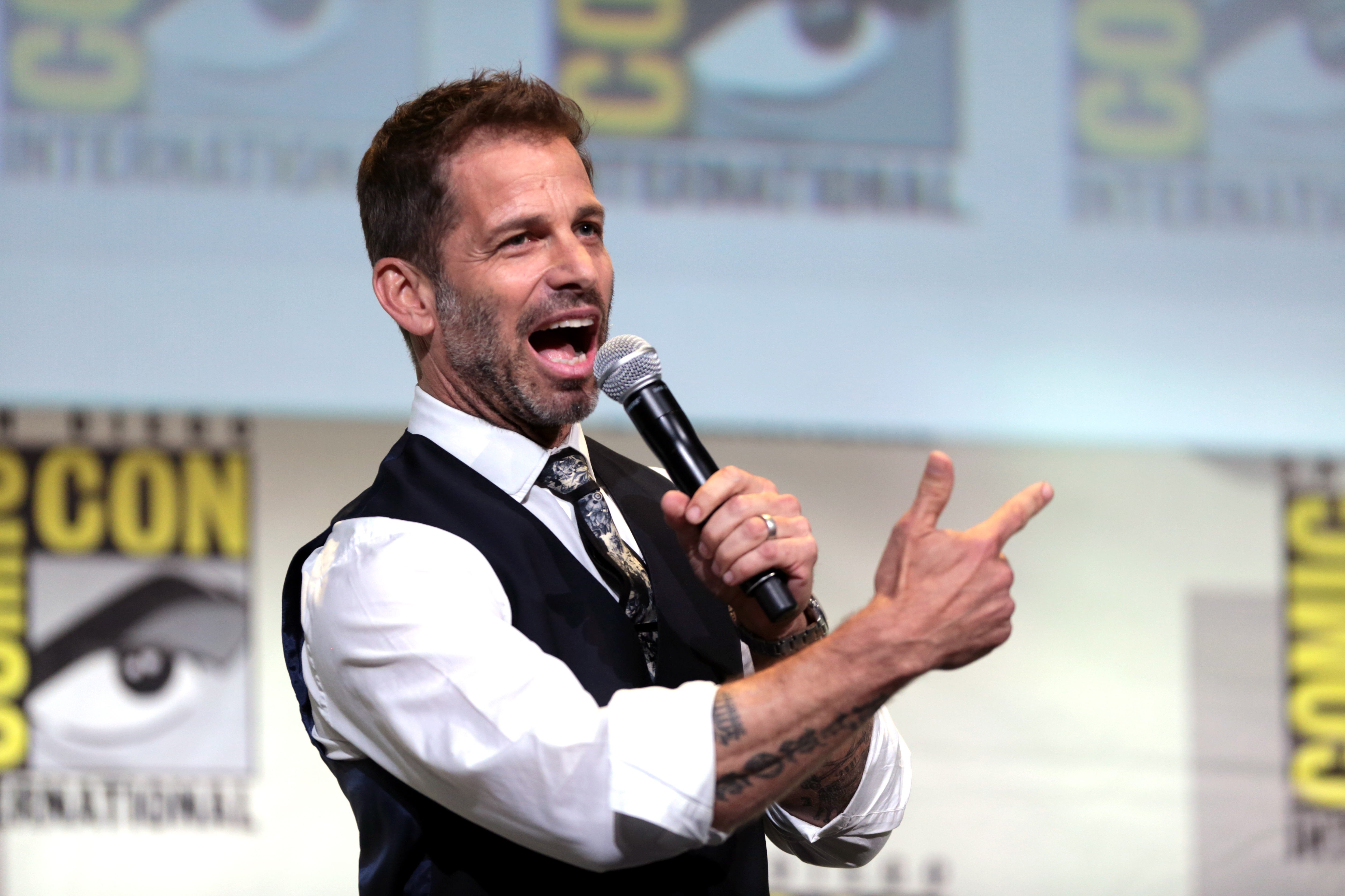 Zack Snyder speaking at the 2016 San Diego Comic Con International, for "Justice League", at the San Diego Convention Center in San Diego, California.